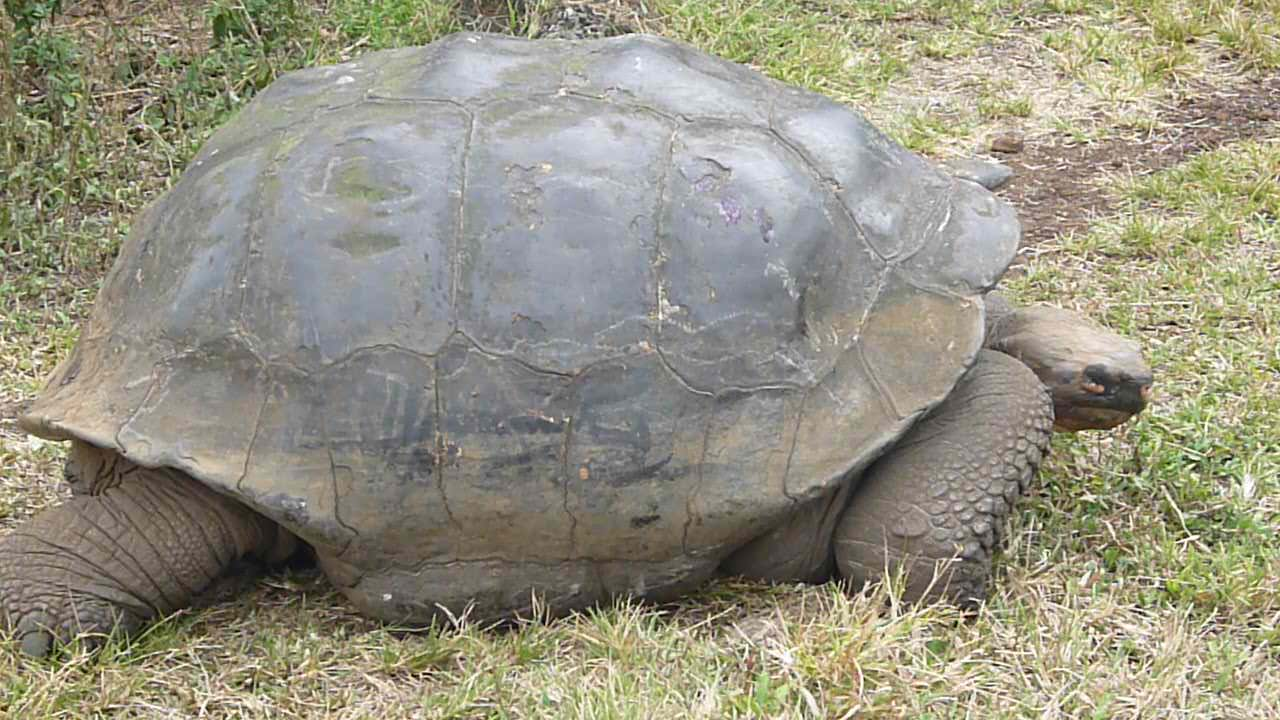 (Photographer, David Adam Kess) I took this photo on the Santa Cruz Island in the Galapagos of a World famous tortoise or Galápagos giant tortoise (Chelonoidis nigra). Below text is from Wikipedia that describes & gives a bit of history and background to the (Chelonoidis nigra). From Wikipedia, the free encyclopedia The Galápagos tortoise or Galápagos giant tortoise (Chelonoidis nigra) is the largest living species of tortoise and 10th-heaviest living reptile, reaching weights of over 400 kg (880 lb) and lengths of over 1.8 meters (5.9 ft). With life spans in the wild of over 100 years, it is one of the longest-lived vertebrates. A captive individual lived at least 170 years. The tortoise is native to seven of the Galápagos Islands, a volcanic archipelago about 1,000 km (620 mi) west of the Ecuadorian mainland. Spanish explorers, who discovered the islands in the 16th century, named them after the Spanish galápago, meaning tortoise. Shell size and shape vary between populations. On islands with humid highlands, the tortoises are larger, with domed shells and short necks - on islands with dry lowlands, the tortoises are smaller, with "saddleback" shells and long necks. Charles Darwin's observations of these differences on the second voyage of the Beagle in 1835, contributed to the development of his theory of evolution.